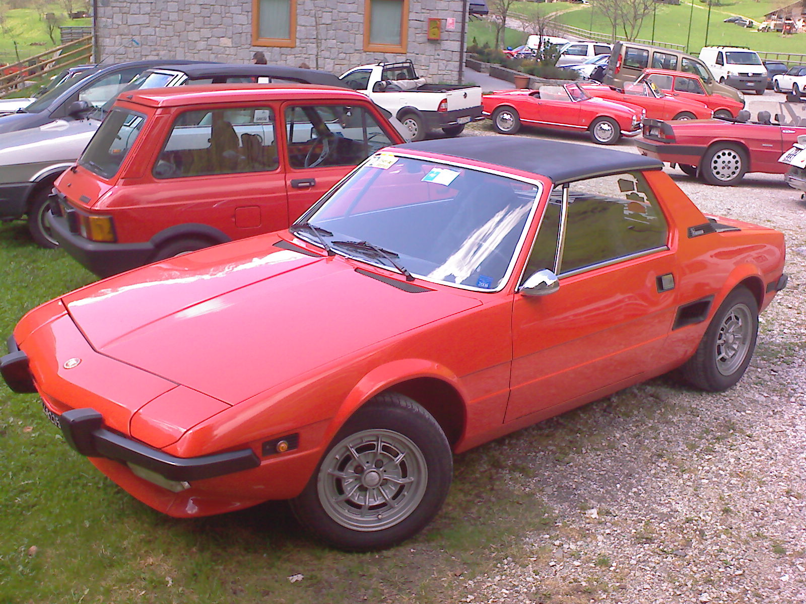 Fiat X1-9 mk1. Picture taken at Daone (Trento, Italy), on 30 april 2009